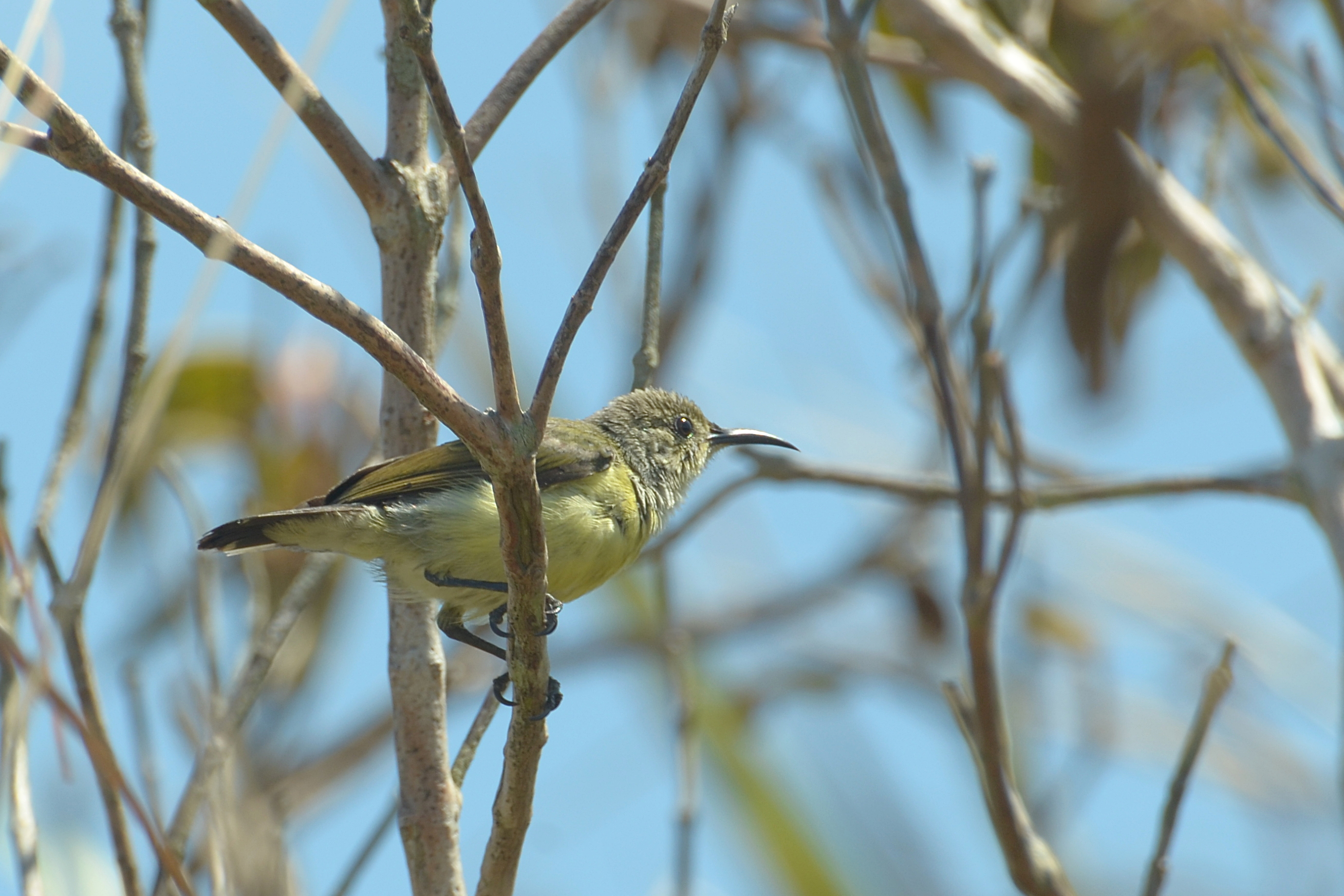 Female of black sunbird (Nectarinia aspasia) at Mount Mahawu, North Sulawesi.